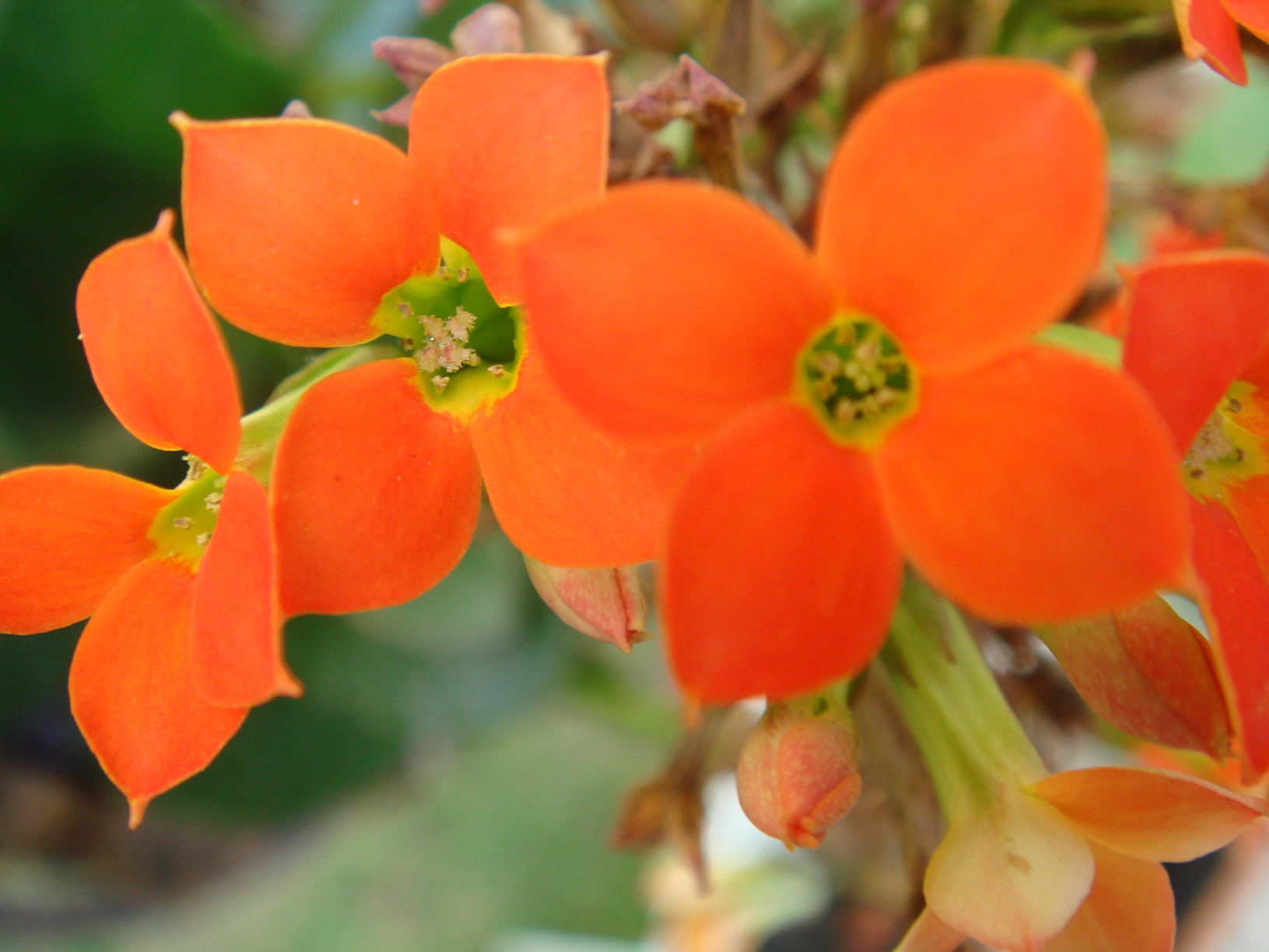 Kalanchoe blossfeldiana